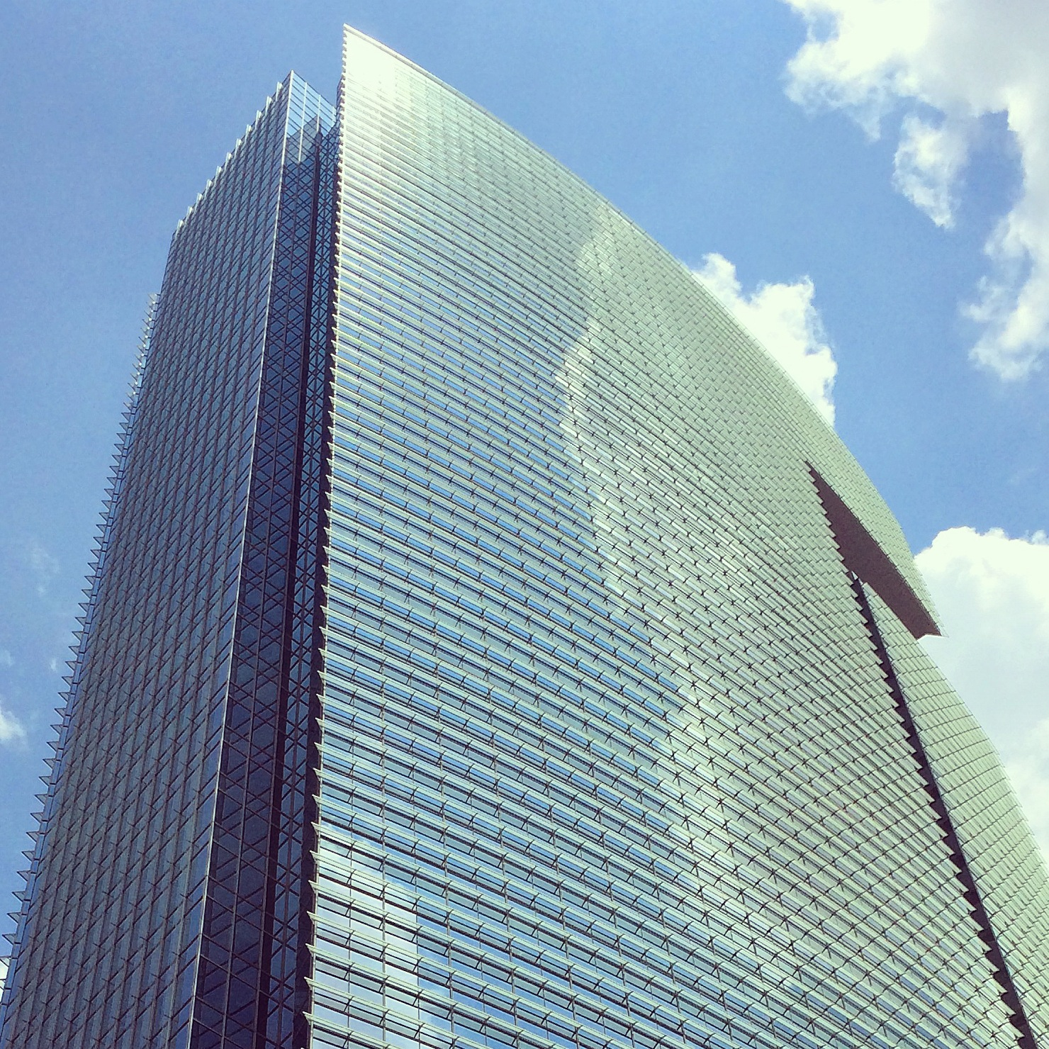 BG Group Place (formerly known as MainPlace) photographed from the southwest on Main Street in Downtown Houston in Texas. Photographed by Quercus montana